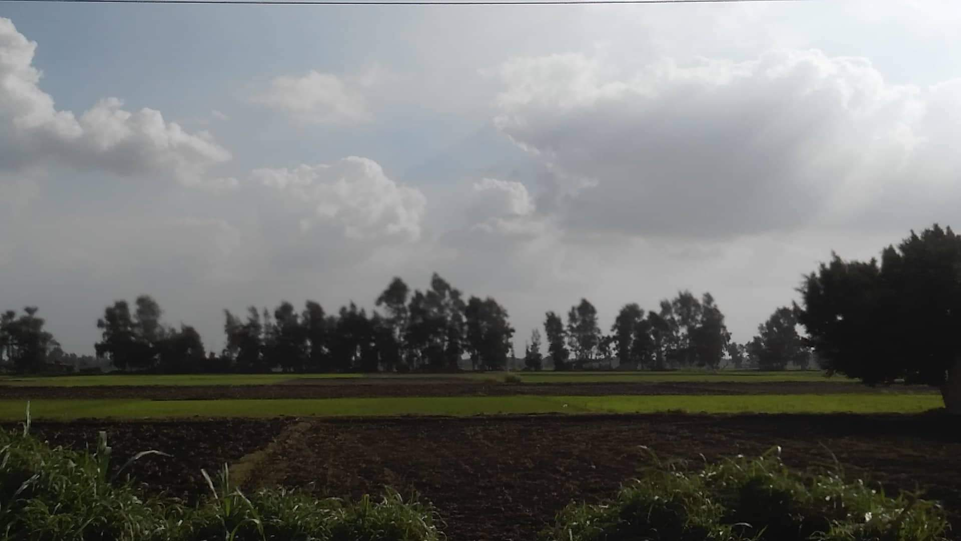 The farms around diarb negm town ,al sharqeia , egypt This is an image with the theme "Africa on the Move or Transport" from: Egypt